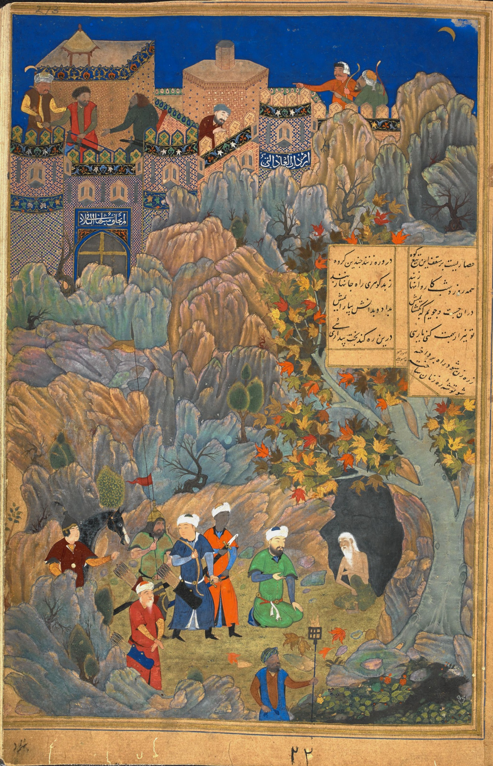 Behzad or Qasim Ali. Iskandar, in the likeness of Husayn Bayqara, visiting the wise man in a cave. Ascribed to Bihzad underneath, but to Qasim ʻAli in the text panel.